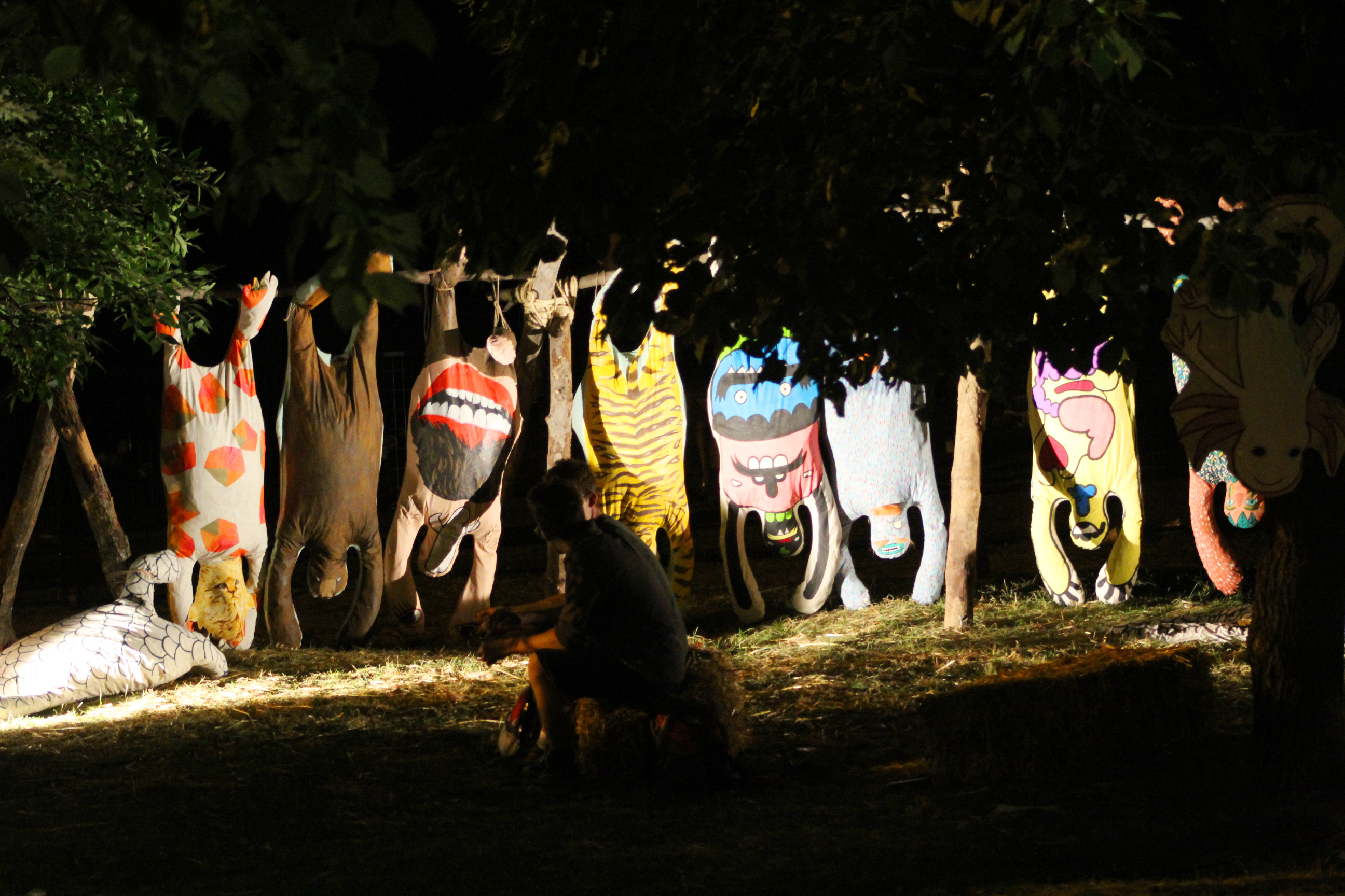 Outdoor decorations at Parc Jean-Drapeau in Montreal, Québec, Canada, during Osheaga music festival, 31 July 2010.